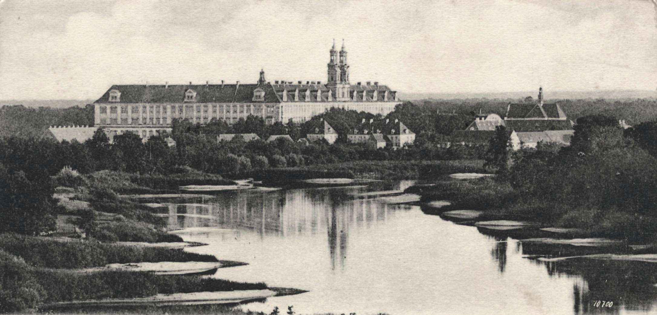 Leubus monastery at Oder river.